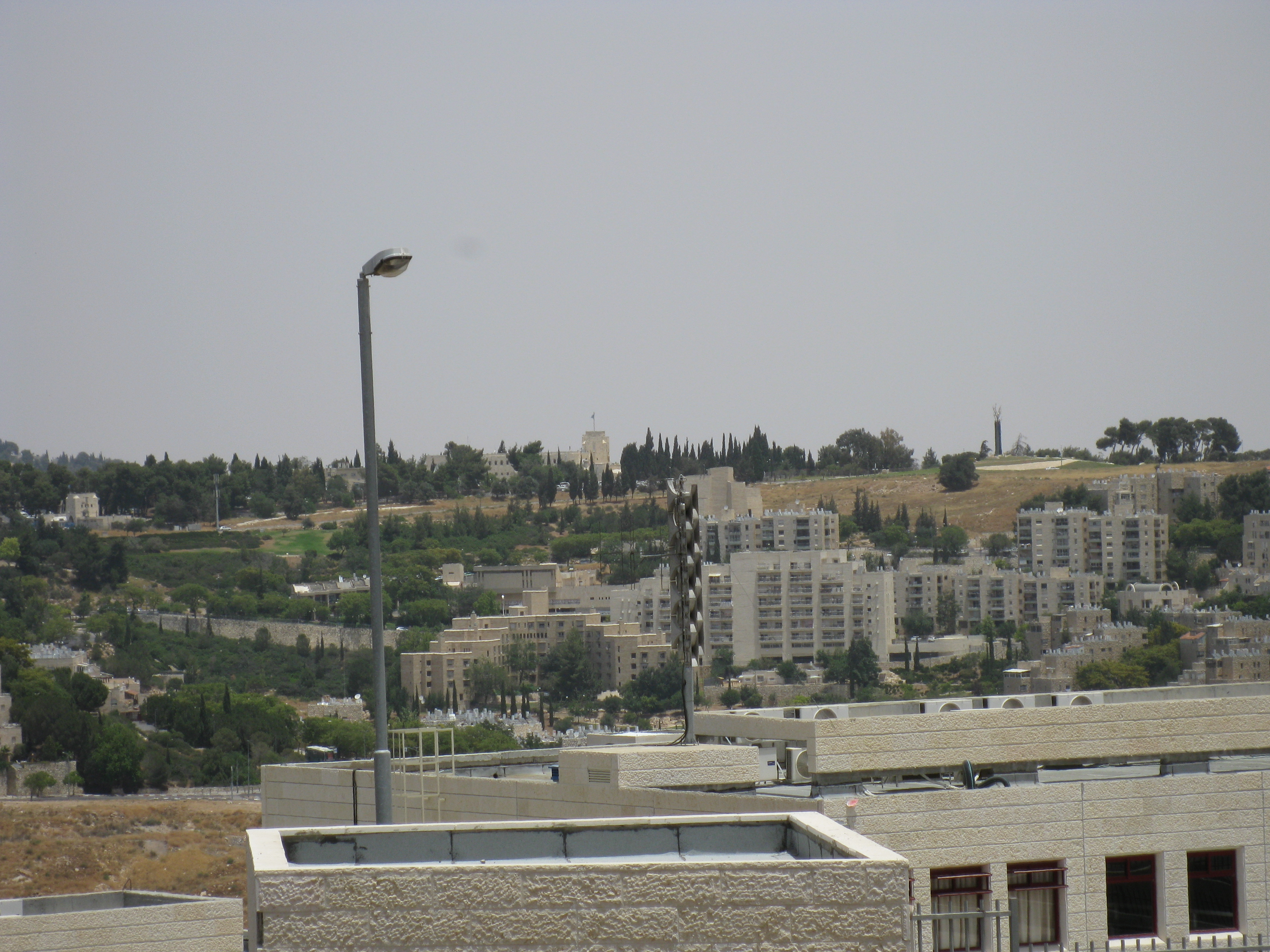 HaPaamon Memorial - View towards Armon Hanatziv